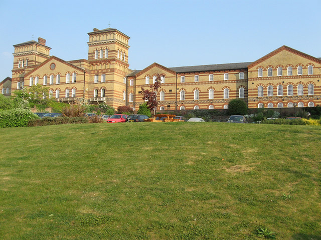 Cavendish House and Park East, Southdowns Park